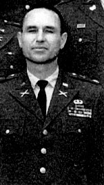 Image of Colonel William Nolde, from his graduation, taken by the United States army, and serves to illustrate the subject of the article William Nolde as no other images can be found.